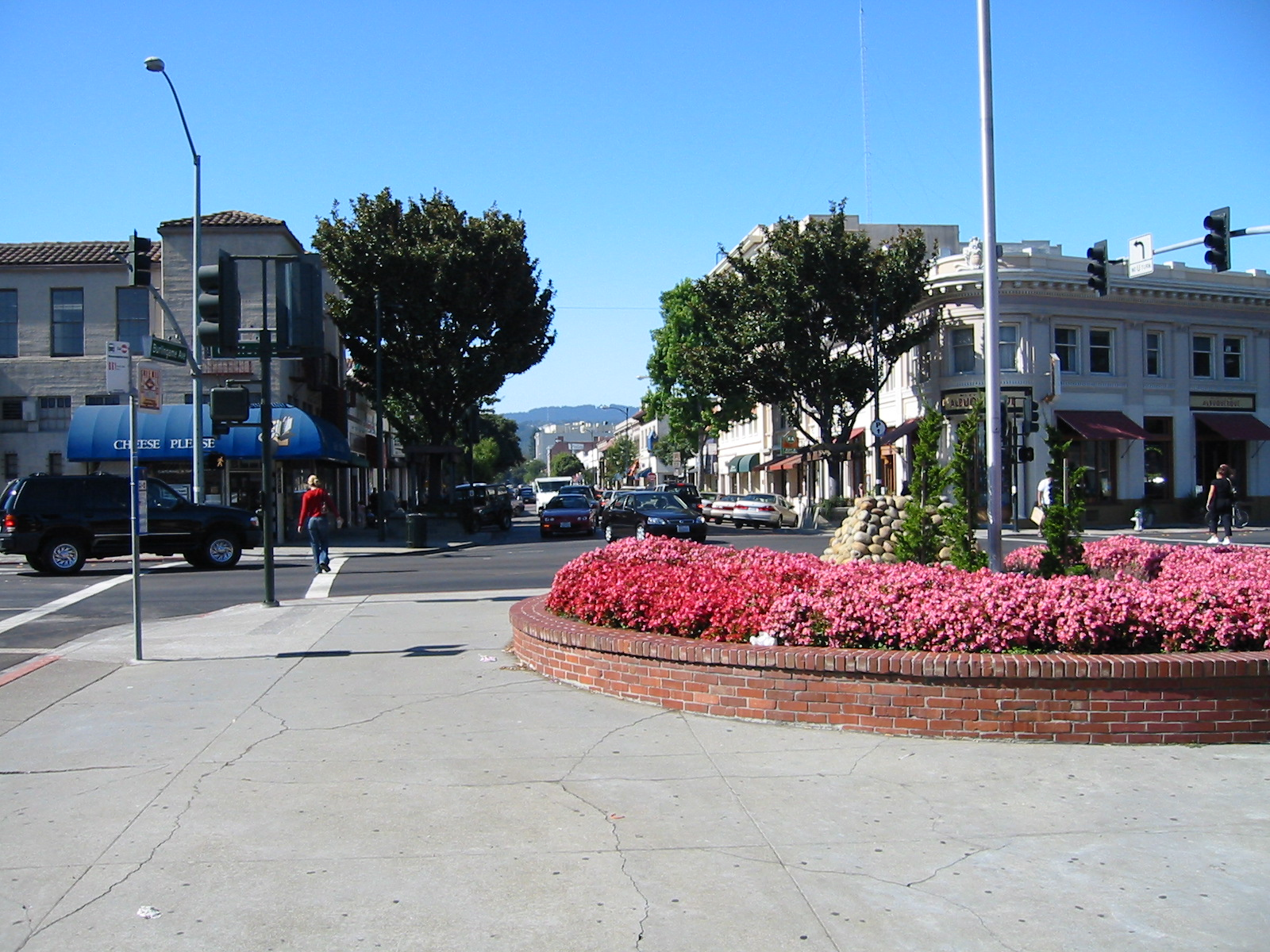 A View Looking West onto Burlingame Aveue and the Business District.